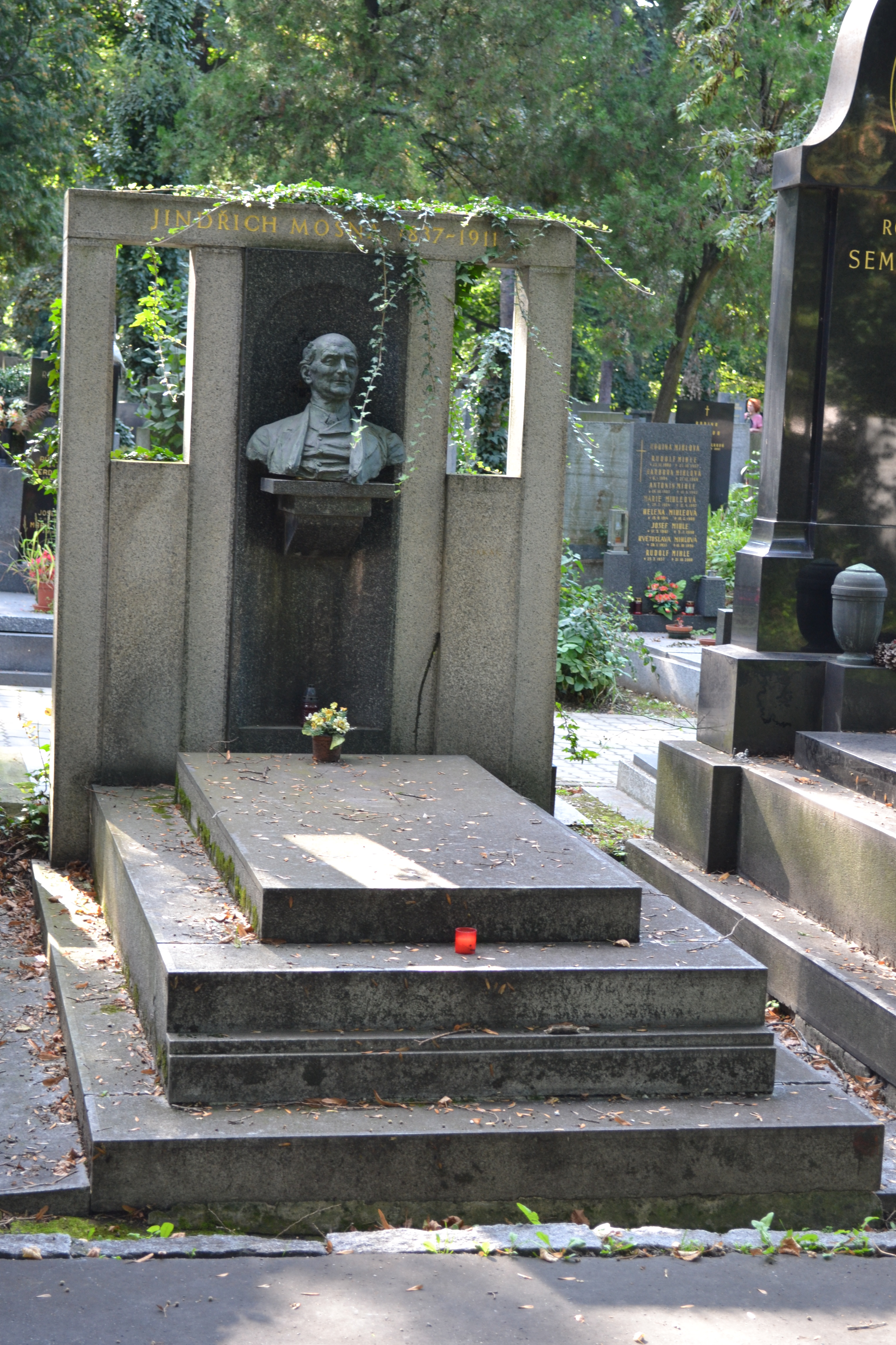 Tomb of Czech actor Jindřich Mošna at Olšany Cemetery in Prague